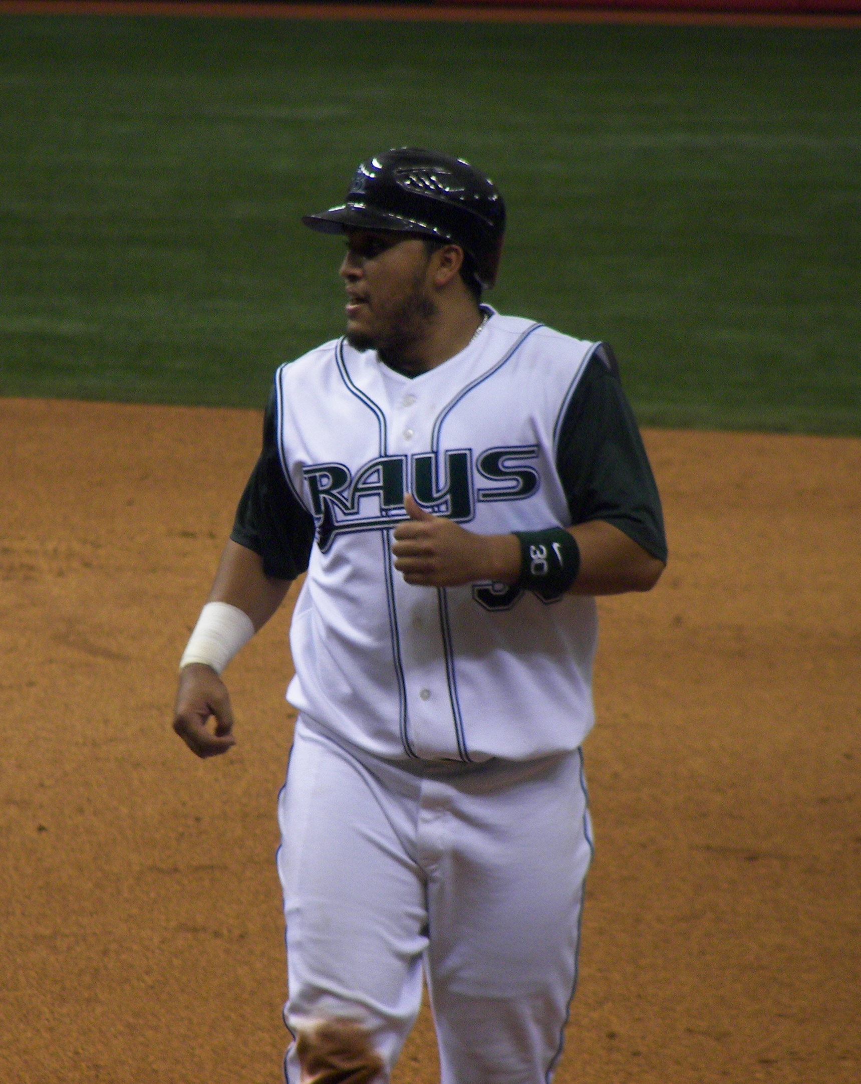 Tampa Bay Devil Rays catcher Dioner Navarro during a Devil Rays/Mets spring training game at Tropicana Field in St. Petersburg, Florida.